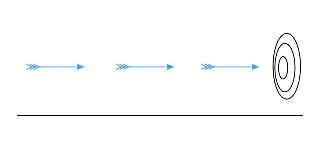 Zeno's paradoxes are a set of philosophical problems generally thought to have been devised by Greek philosopher Zeno of Elea (ca. 490–430 BC) to support Parmenides's doctrine that contrary to the evidence of one's senses, the belief in plurality and change is mistaken, and in particular that motion is nothing but an illusion. Source: Grandjean, Martin (2014) Henri Bergson et les paradoxes de Zénon : Achille battu par la tortue ?